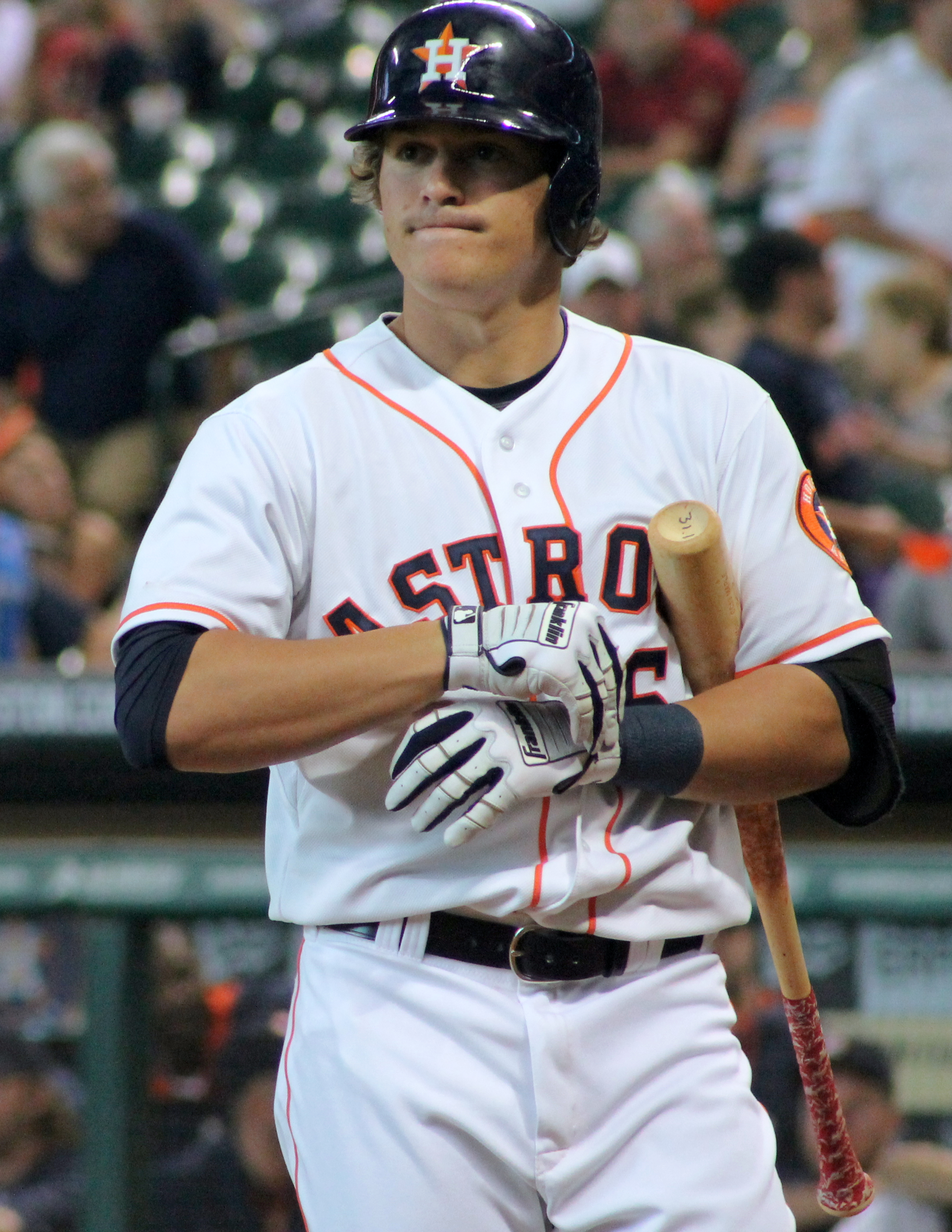 Major League Baseball player Enrique "Kiké" Hernández in Houston in July 2014.